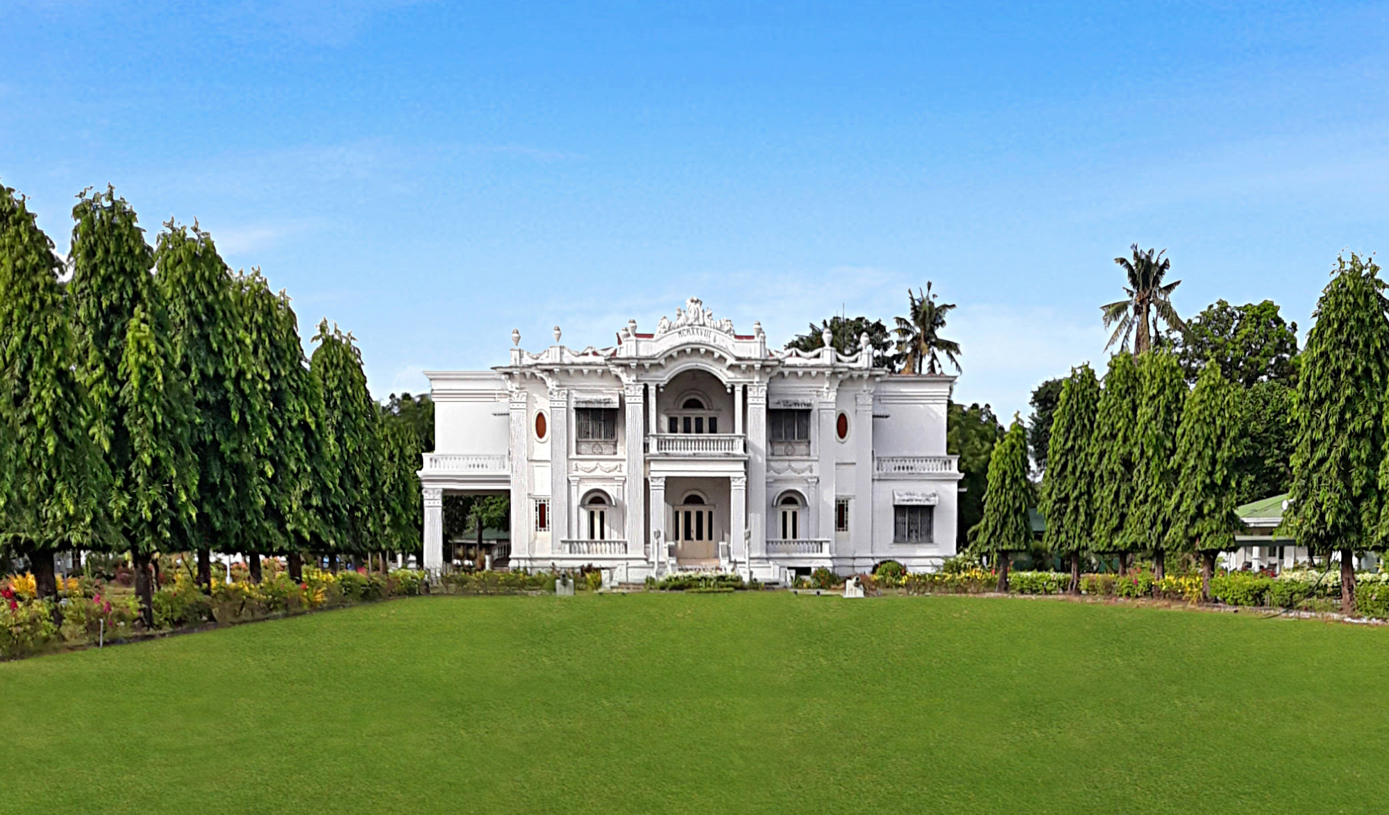 Mansion de Lopez (Lopez Heritage House or Nelly's Garden) in Jaro, Iloilo City of Familia Lopez of Iloilo who founded ABS-CBN Corporation.